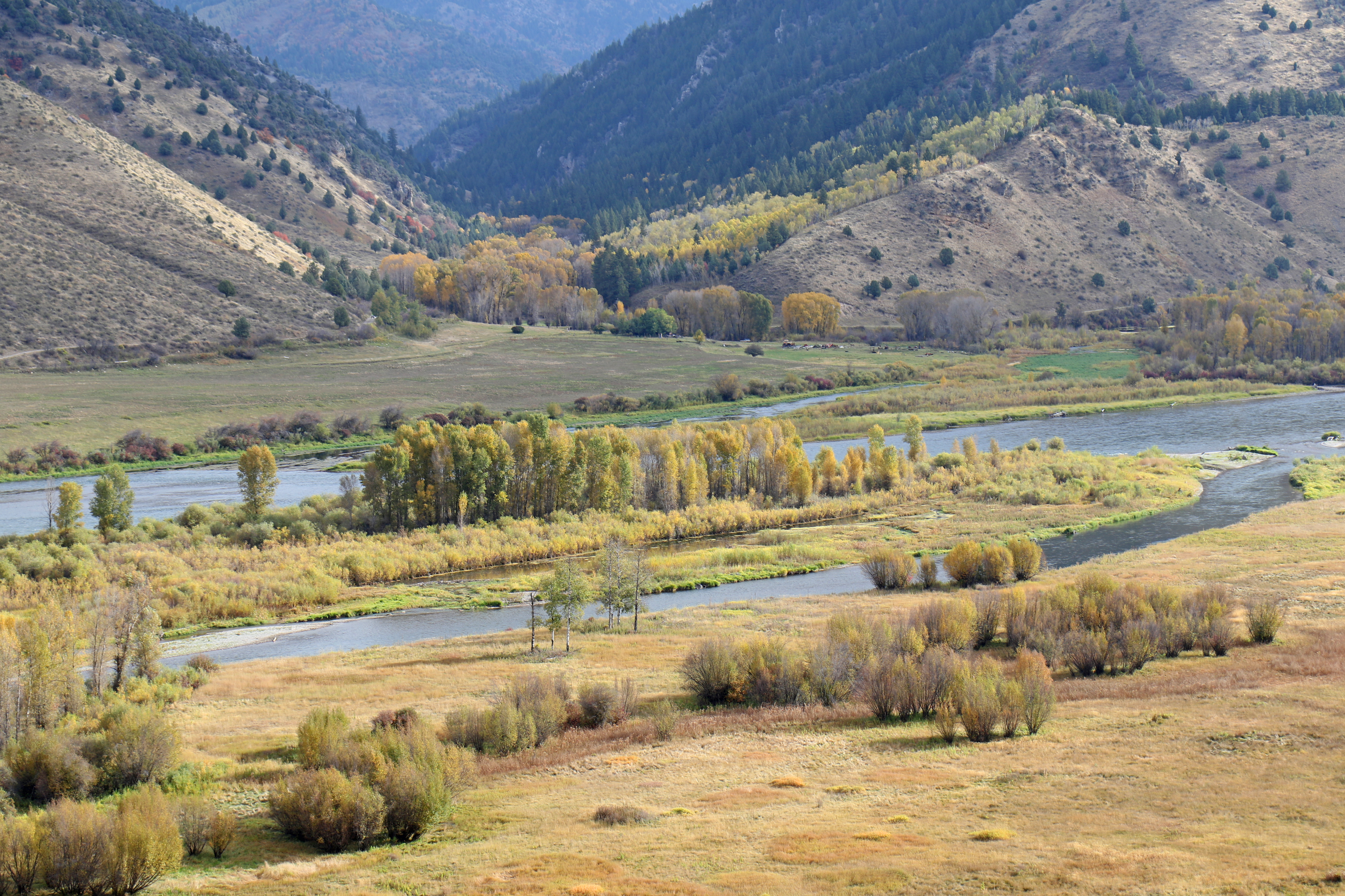 In 2012, the BLM purchased 431 acres known as Fisher Bottom along the South Fork of the Snake River as part of the Land and Water Conservation program. The property is significant due to its location and culturally important part of Idaho history since it is the original homestead and historical ranch complex of the Fisher family and well-known author of the frontier Americana genre, Vardis Fisher.